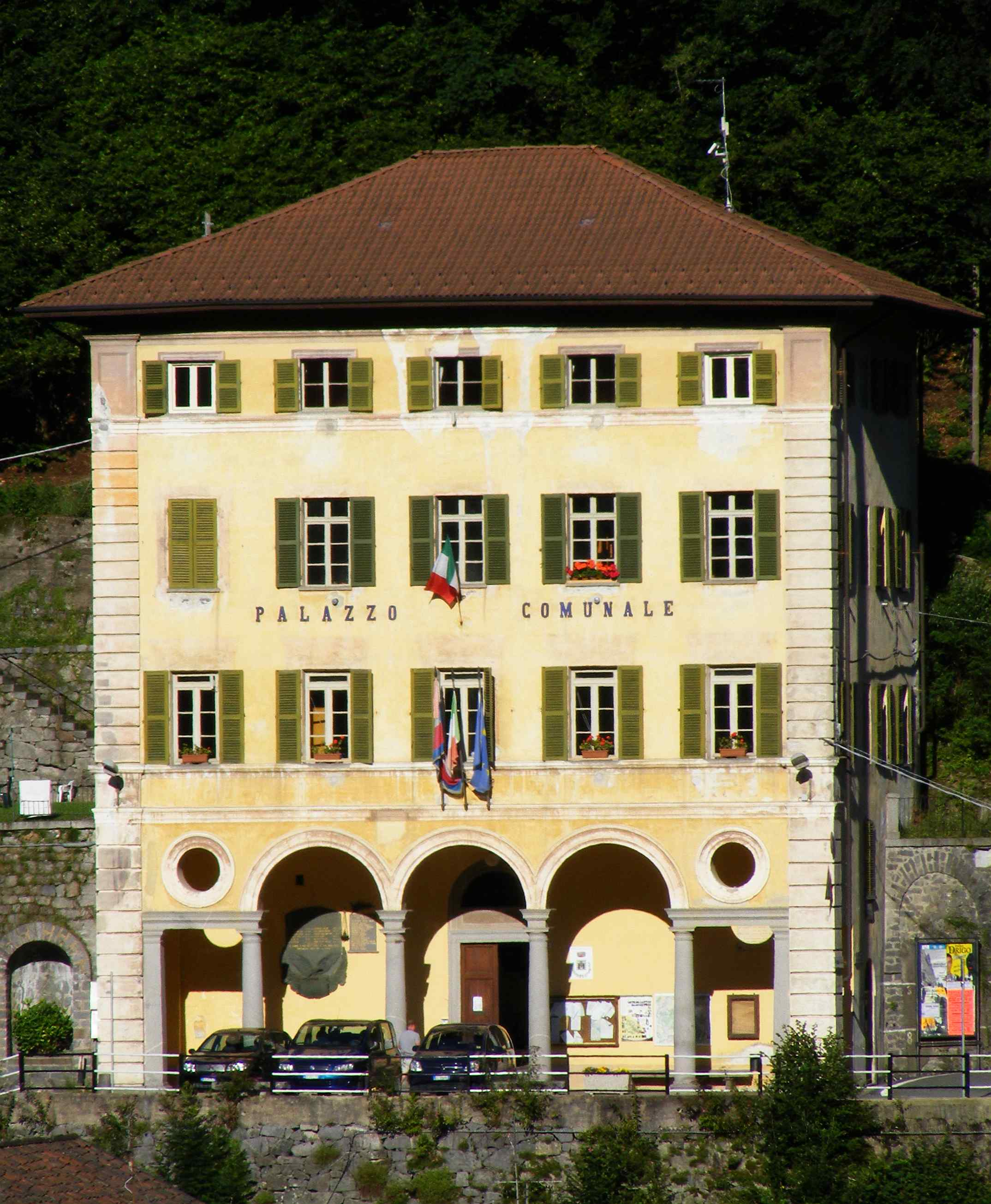 San Paolo Cervo (BI, Italy): town hall